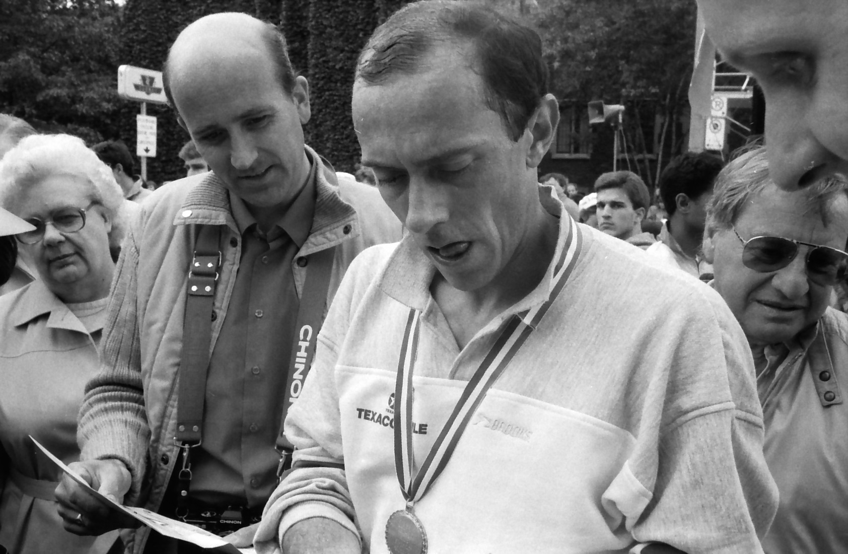 Steve Ovett signs autographs after mile race at Queen's Park, Toronto